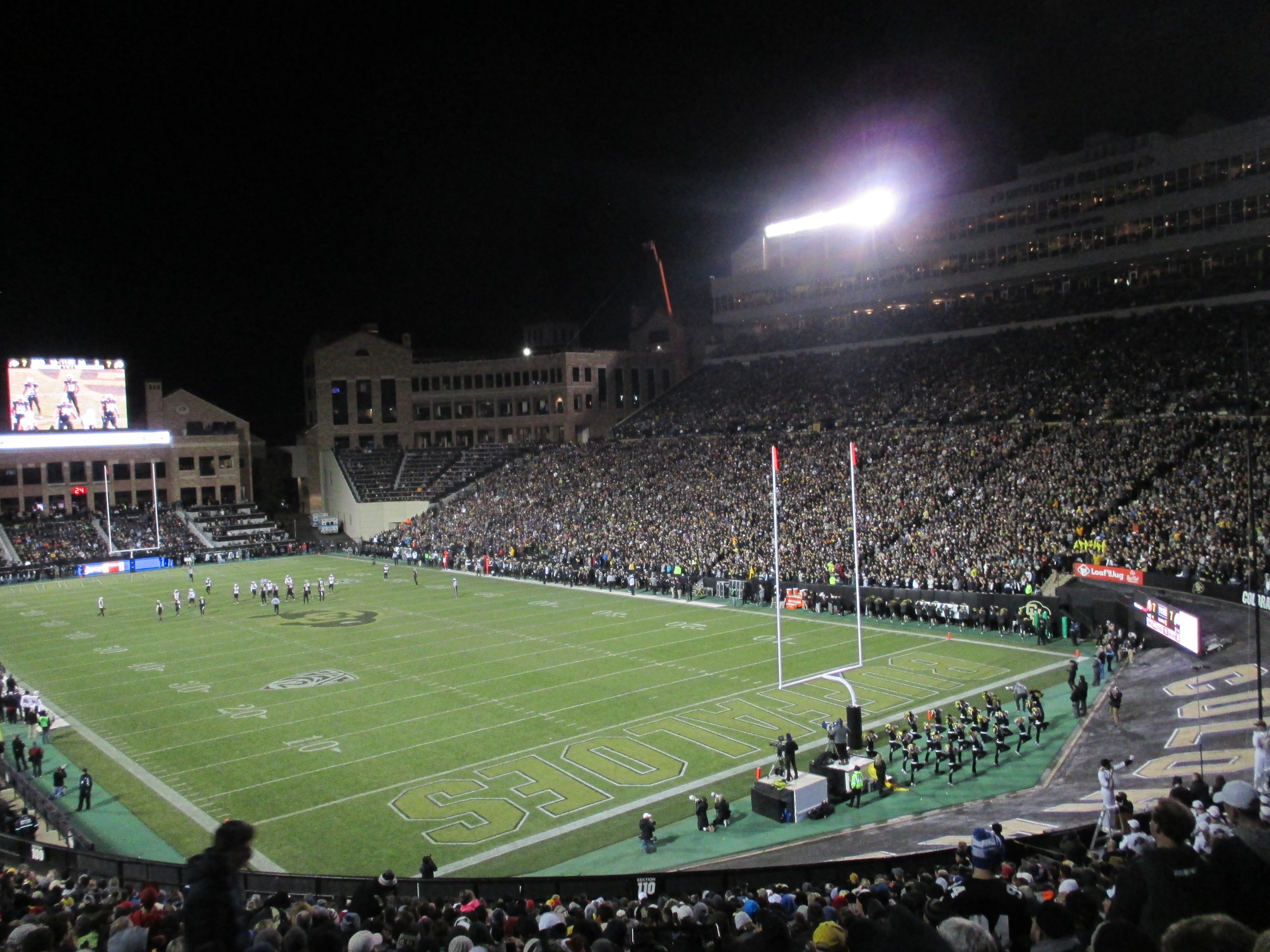 A sellout crowd of 52,301 watches the final game of the 2016 regular season.